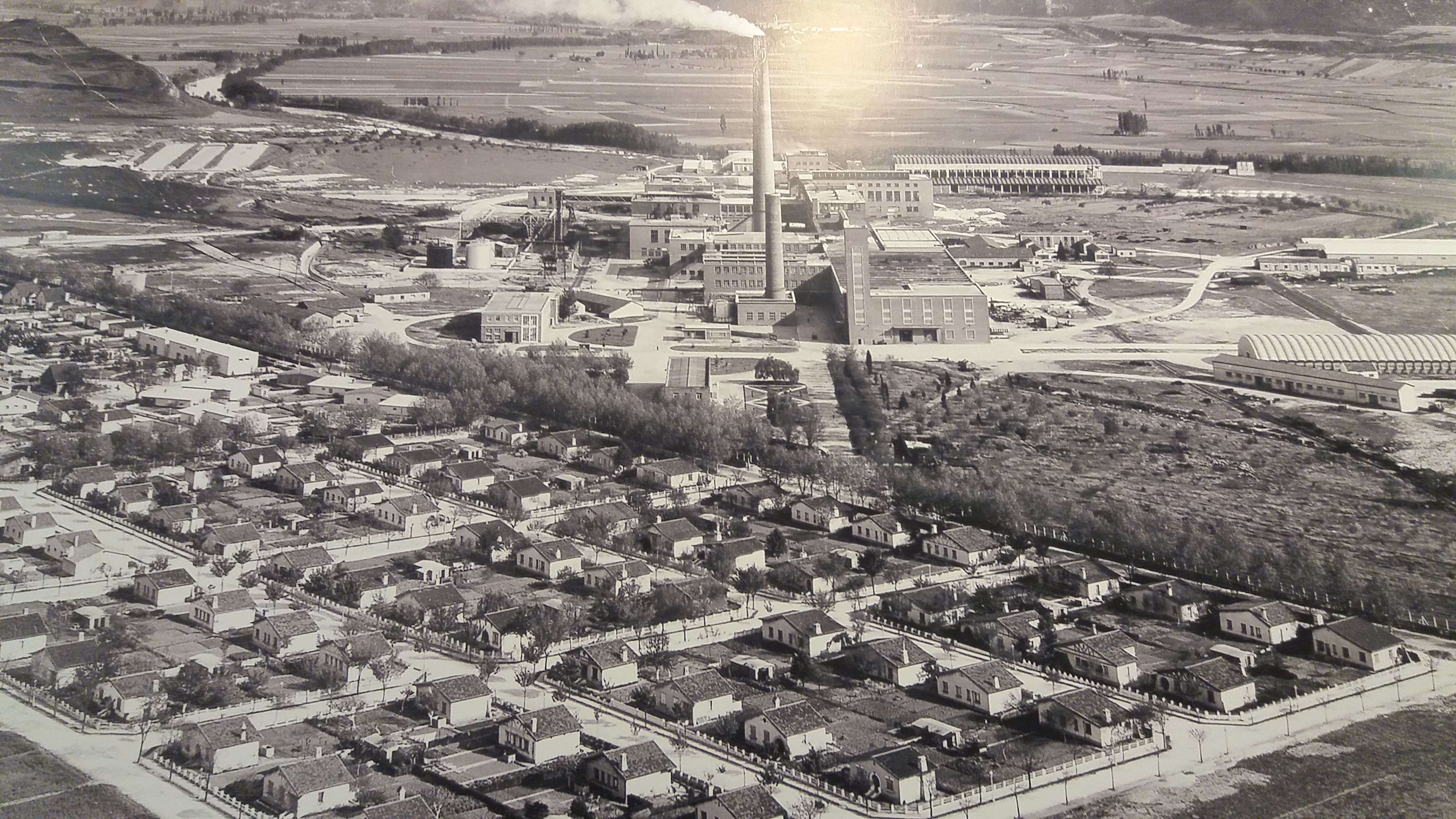 fefasa factory and neigbourhood in miranda de ebro, spain. 50's xx century